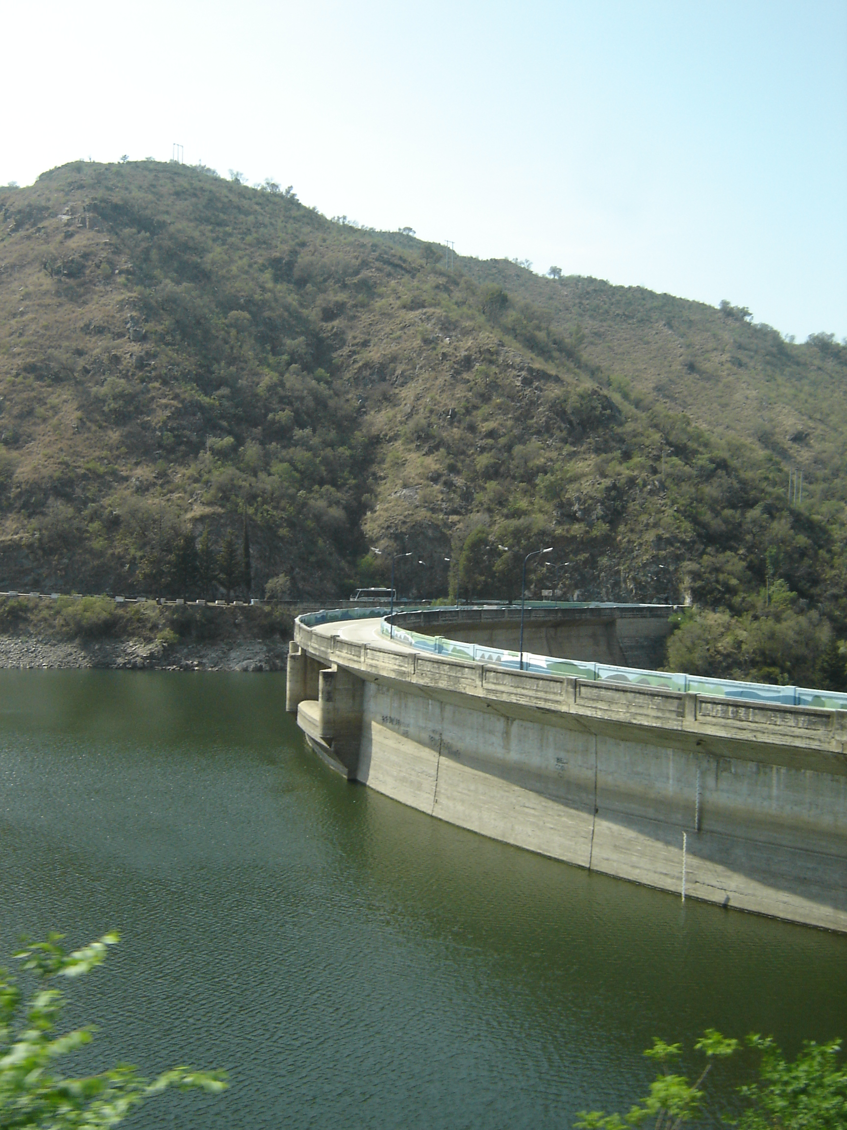 Los Molinos Dam